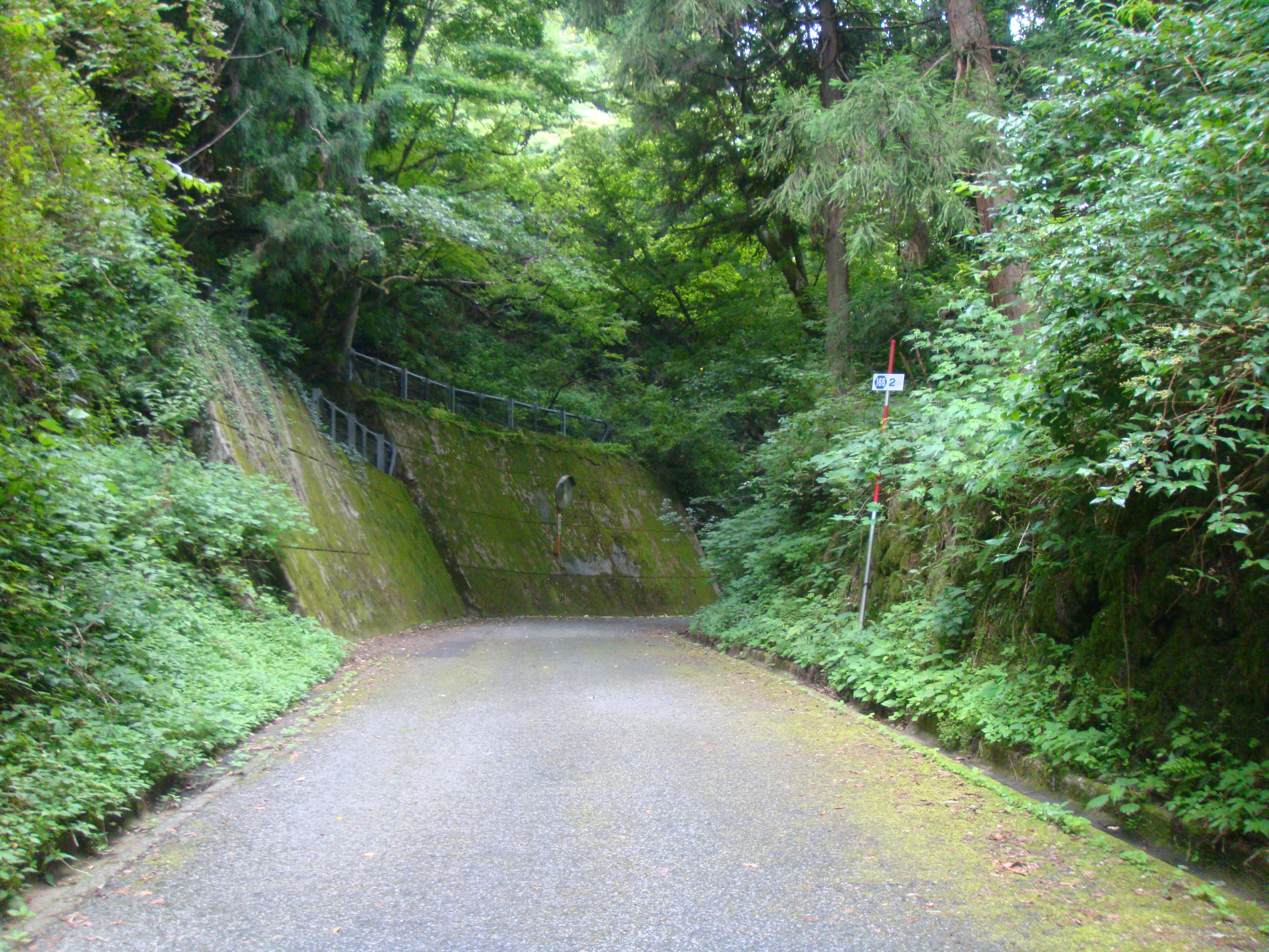 Koesaka Pass（Fukui Prefectural Road Route 165） Place - Matsuoka-Yoshino,Eiheiji Town,Yoshida County,Fukui Prefecture,Japan Date - July 12, 2011 Format - JPEG, 3648x2736pixel, 24bit colors Photographer - NALA Wiki (talk)